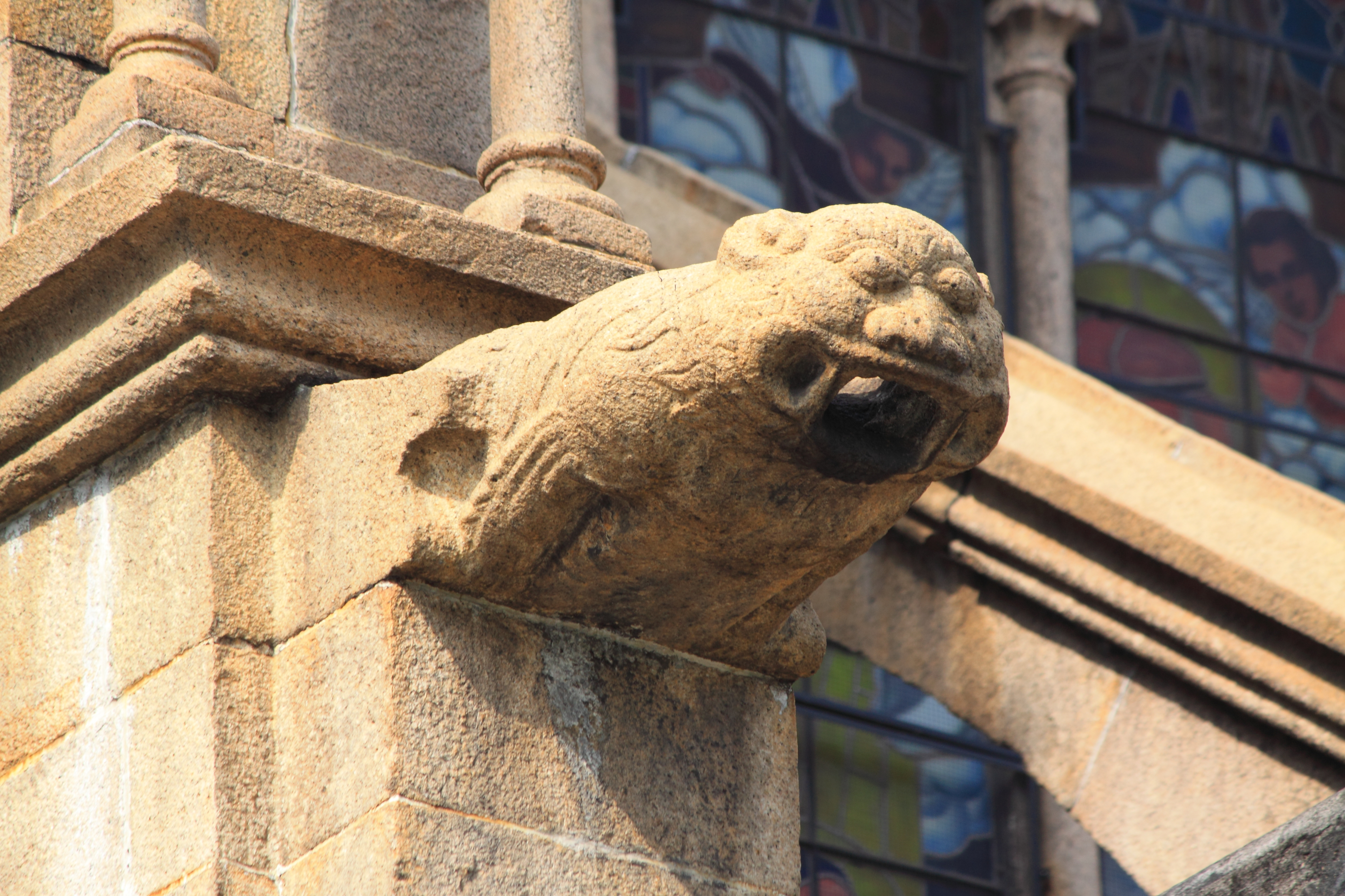 Sacred Heart Cathedral of Guangzhou，in Guangzhou, Guangdong, China.